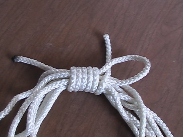 Alpine Coil Knot tied in nylon rope, 4 of 5 step by step images